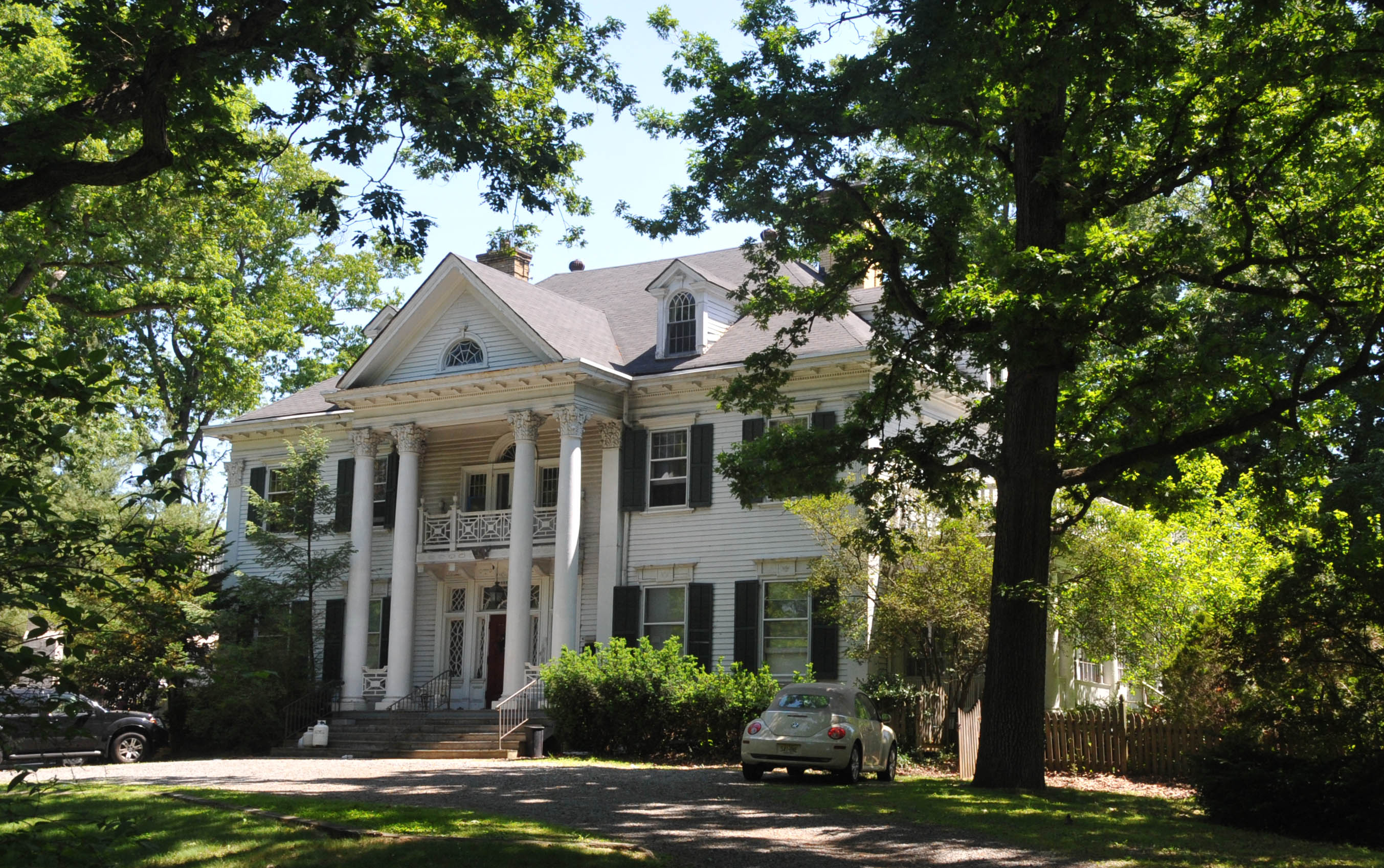 AKA DR. GRANVILLE M. WHITE HOUSE; BUILT LATE 19TH CENTURY IN COLONIAL REVIVAL STYLE